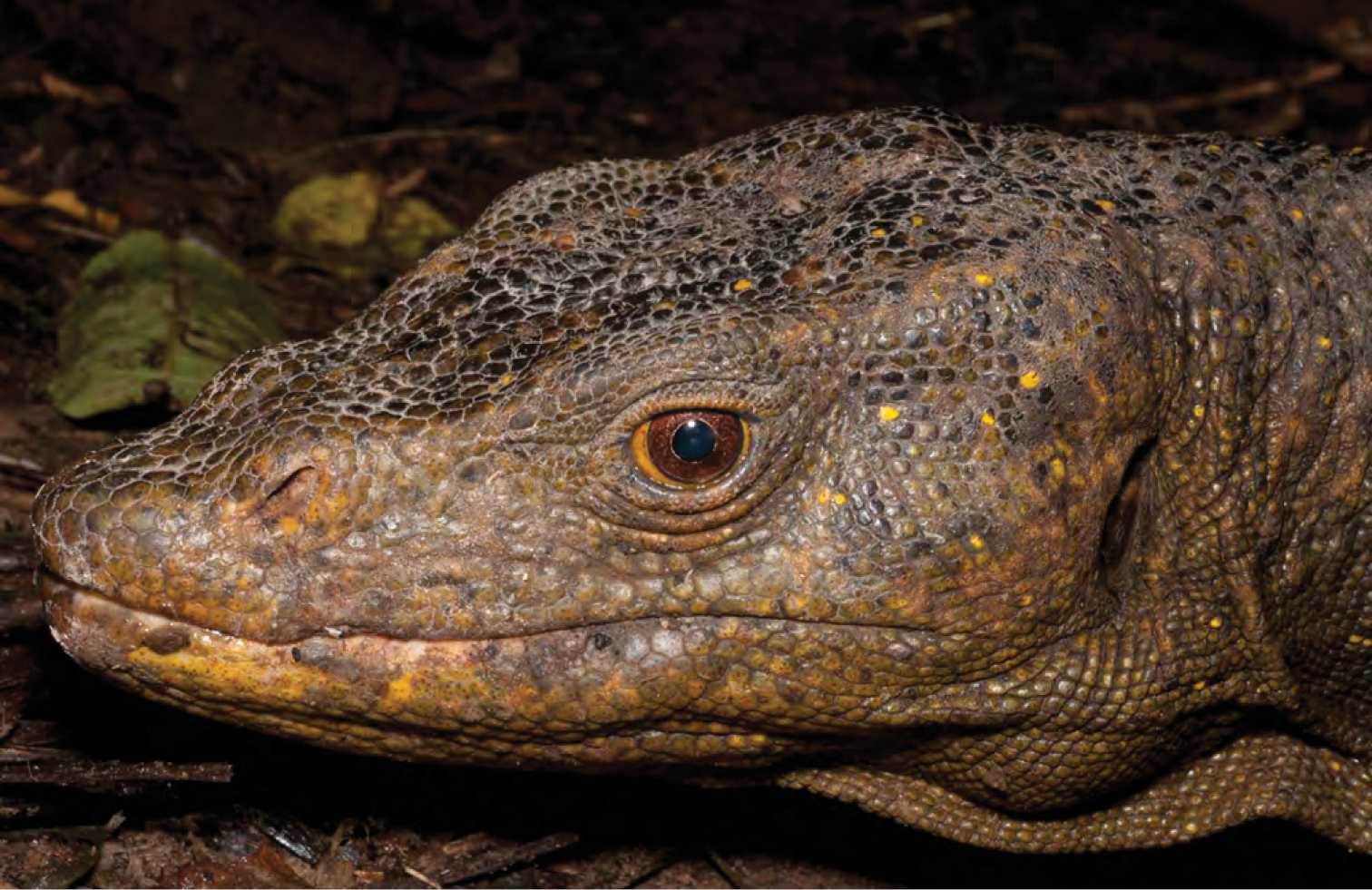 A large (nearly 2 m) adult male Varanus bitatawa in life. Photo: RMB.